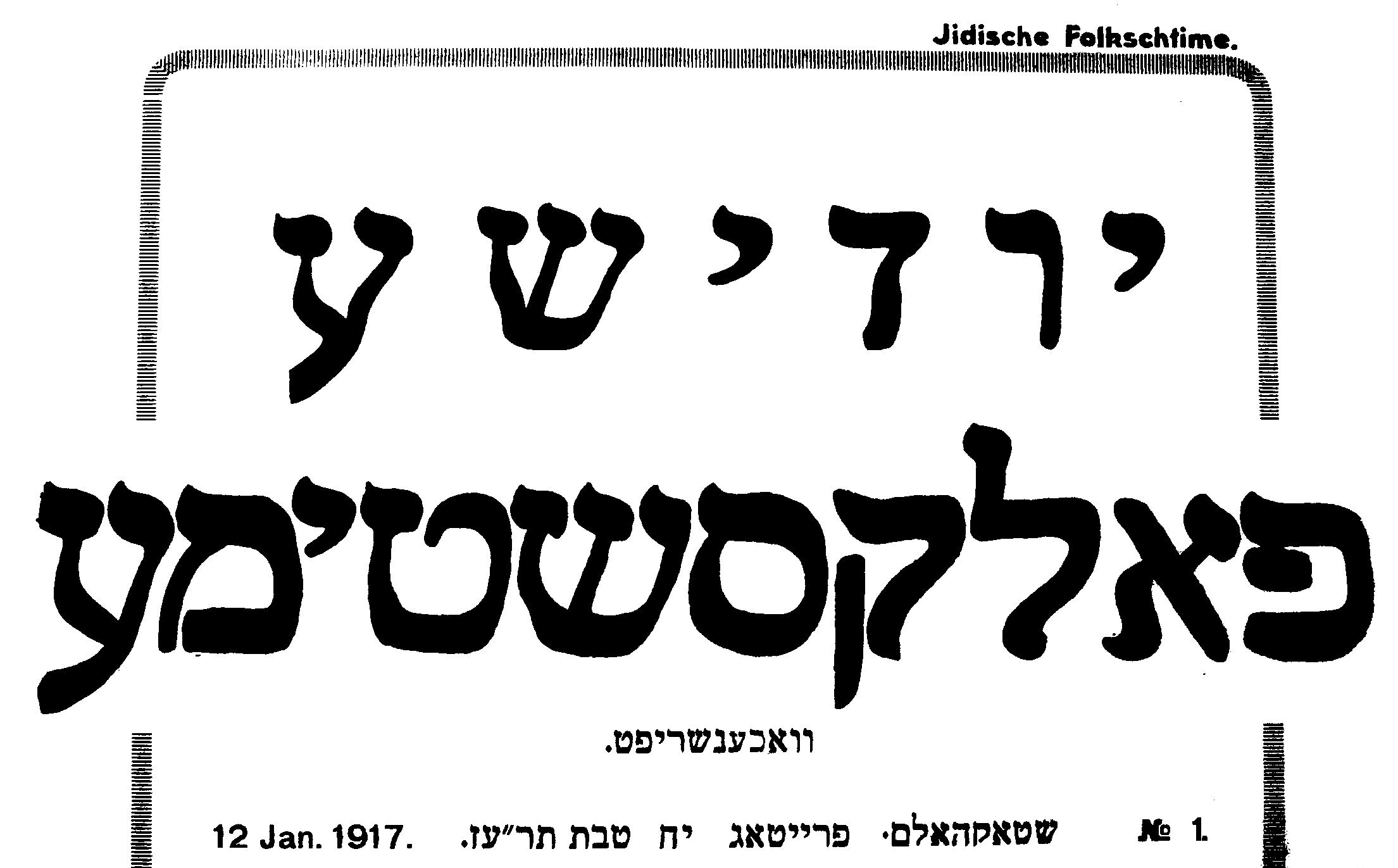 Masthead of יודישע פאלקסשטימע (YIVO: Yudishe Folksshtime) I digitally photographed this image from a newspaper published in Sweden in 1917 for which no copyright is in effect. The image was both captured and is posted here in JPEG format, according to the instructions at Wikipedia:Preparing images for upload